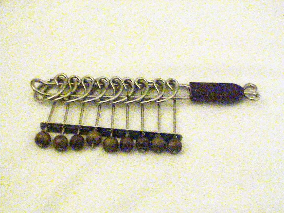 brightened original dark picture